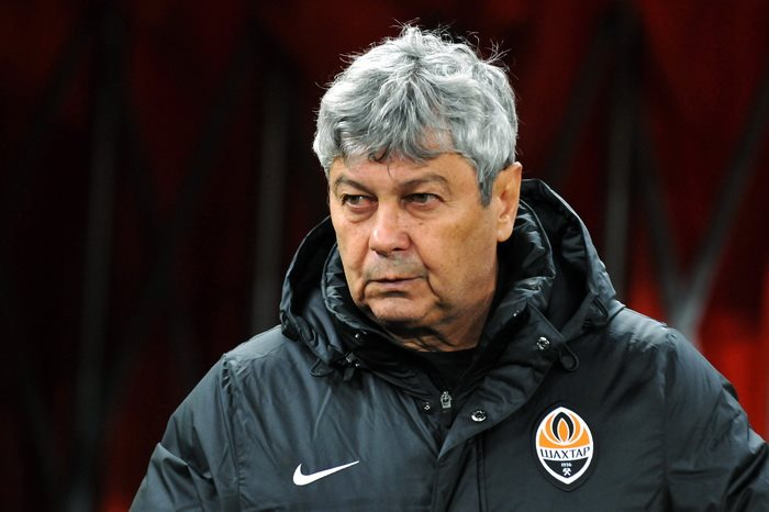 Mircea Lucescu, Shakhtar Donetsk-Arsenal Kiev (7-0) 5th October 2013, Ukrainian Premier League